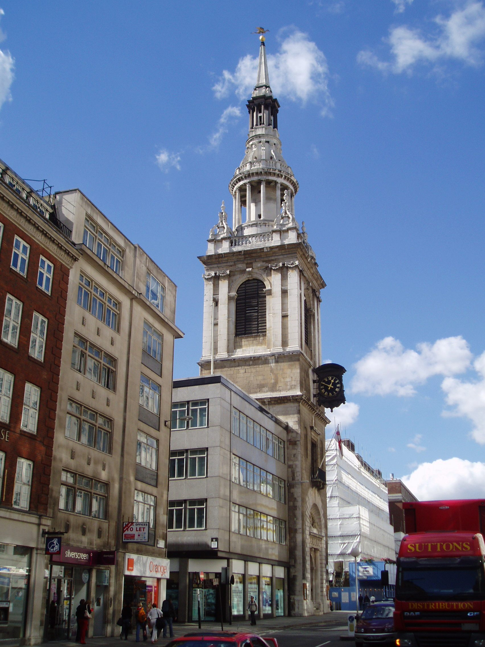 St Mary-le-Bow by Sir Christopher Wren, Cheapside, London